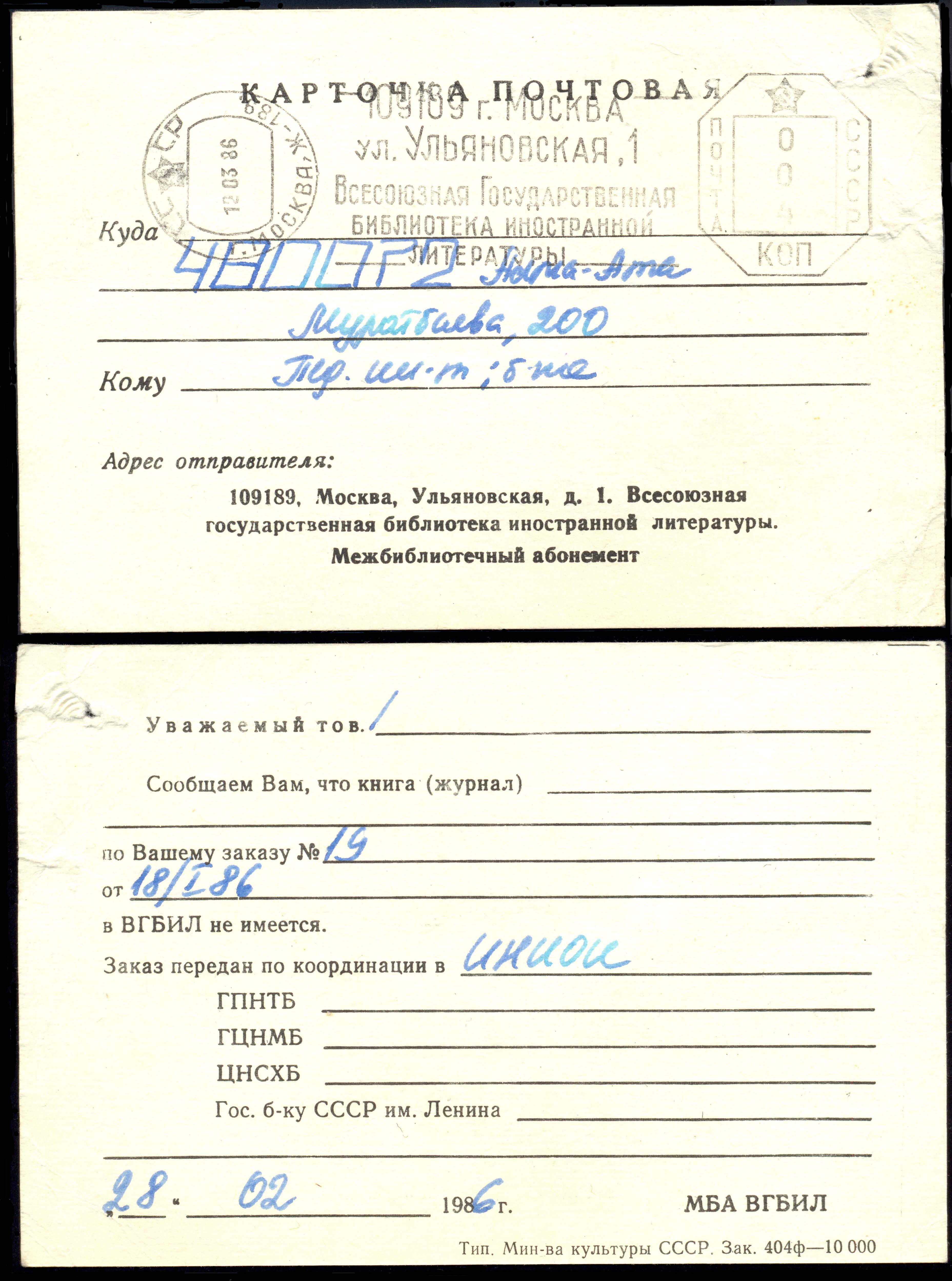 Front and back sides of a USSR library post card notifying of non-availability of a book in the library, a postage meter, 1986.